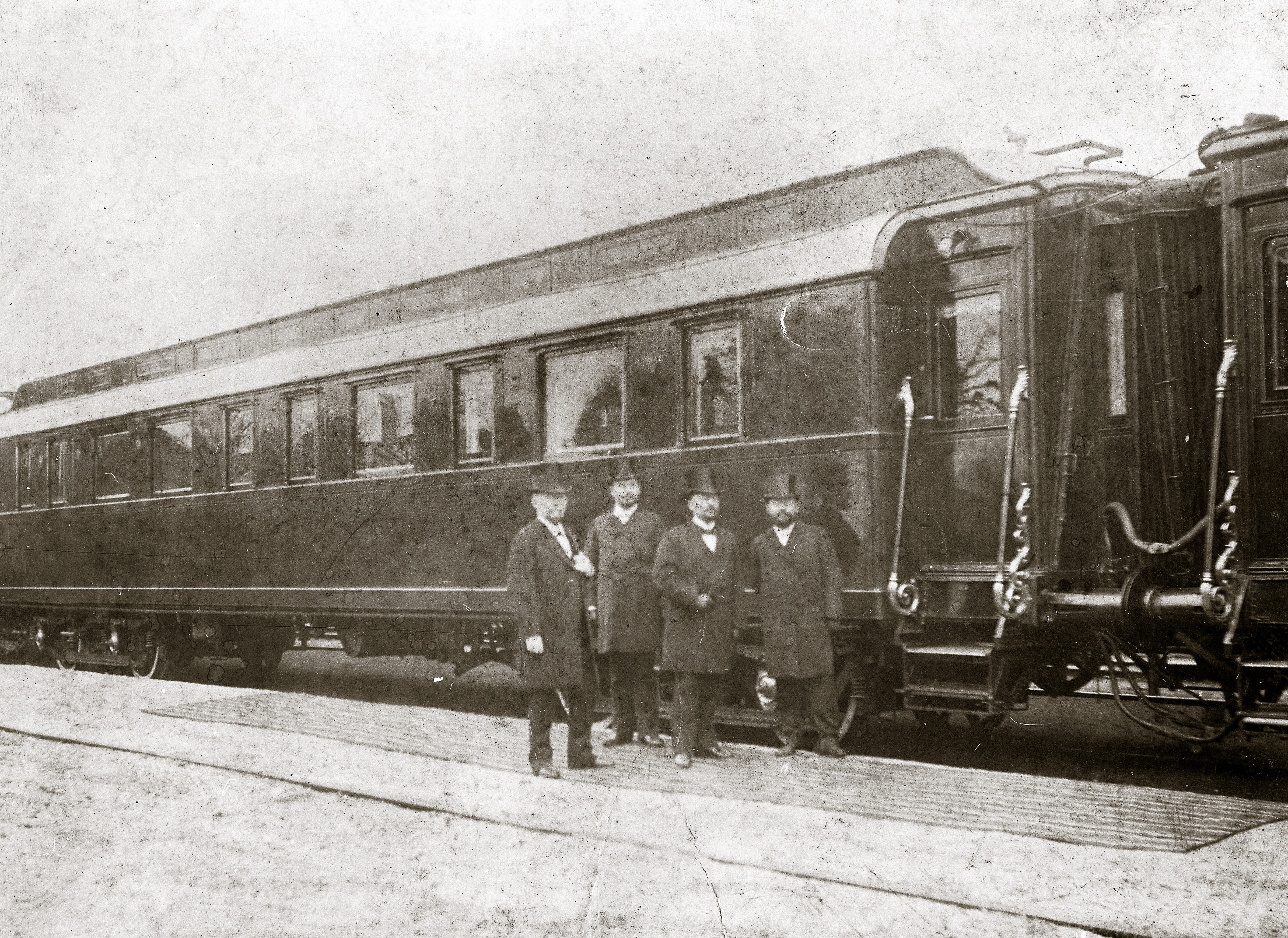 Salon coach of tsar Niclas II. of Russia parked in Rosengarten railway station (today: Lampertheim, Hesse, Germany). This coach was part of the train used by Nicolas II. when travelling in Western Europe on 1435 mm gauge. The dating of the picture by: Ralph Häussler: Eisenbahnen in Worms. Hamm 2003. ISBN 3-935651-10-4, p. 34